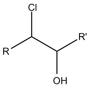 The general structure on a chlorohydrin. Drawn with ChemBioDraw Ultra 12.02